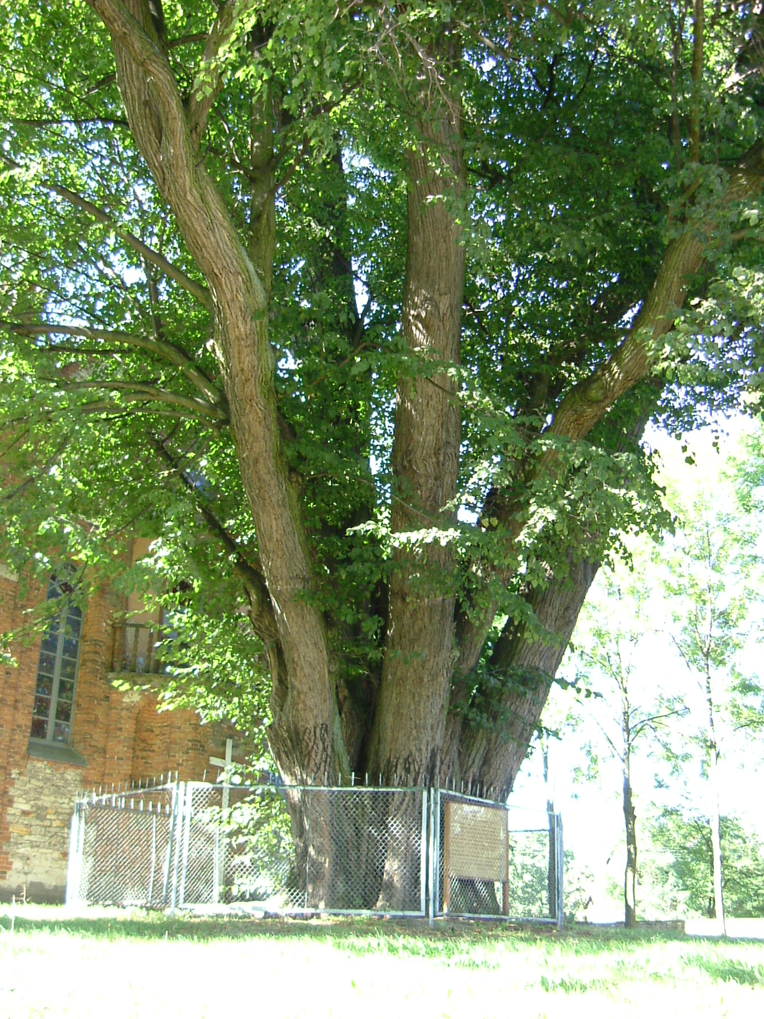 Cieletniki - the lime